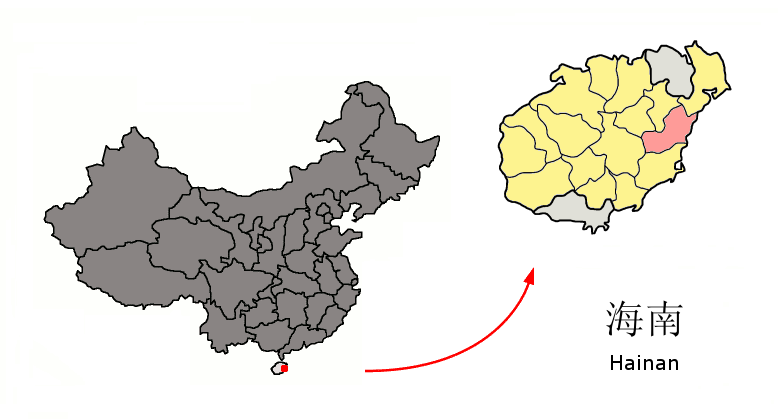 Location of Qionghai City (pink) and the subdivisions directly administered by the province (yellow) within Hainan province of China Map drawn in september 2007 using various sources, mainly : Hainan Counties map from